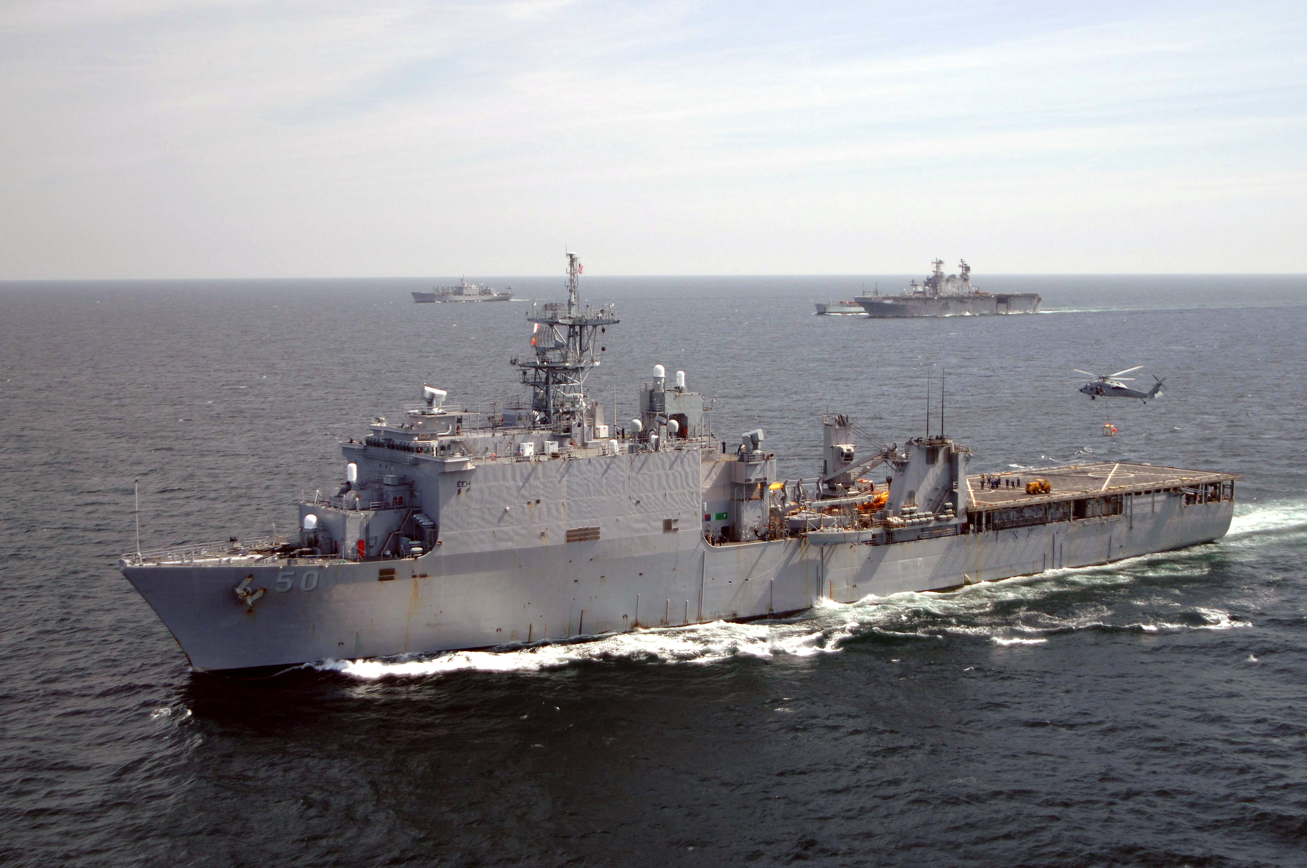 Persian Gulf (Feb. 19, 2006) - The amphibious dock landing ship USS Carter Hall (LSD 50), front, receives supplies from an MH-60S Seahawk helicopter during a vertical replenishment (VERTREP) with the Military Sealift Command (MSC) combat store ship USNS Niagara Falls (T-AFS 3), as the British Royal Fleet Auxiliary ship RFA Bayleaf (A 109) approaches the USS Nassau (LHA 4) for a replenishment at sea (RAS). Carter Hall and Nassau are currently on a regularly scheduled deployment conducting maritime security operations (MSO). MSO sets the conditions for security and stability in the maritime environment as well as complement the counter-terrorism and security efforts of regional nations. U.S. Navy photo by Photographer's Mate 2nd Class Michael J. Sandberg (RELEASED)